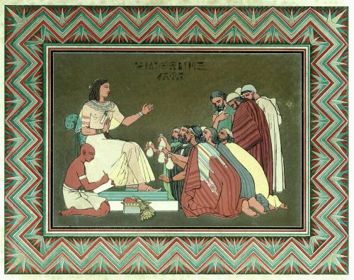 Illustration by Owen Jones from "The History of Joseph and His Brethren" (Day & Son, 1869). Scanned and archived at where it was marked as Public Domain. Text from Book: And Joseph was the governor over the land, and he it was that sold to all the people of the land; and Joseph's brethren came, and bowed down themselves before him, with their faces to the earth. Genesis, C. XLII. V. 6.